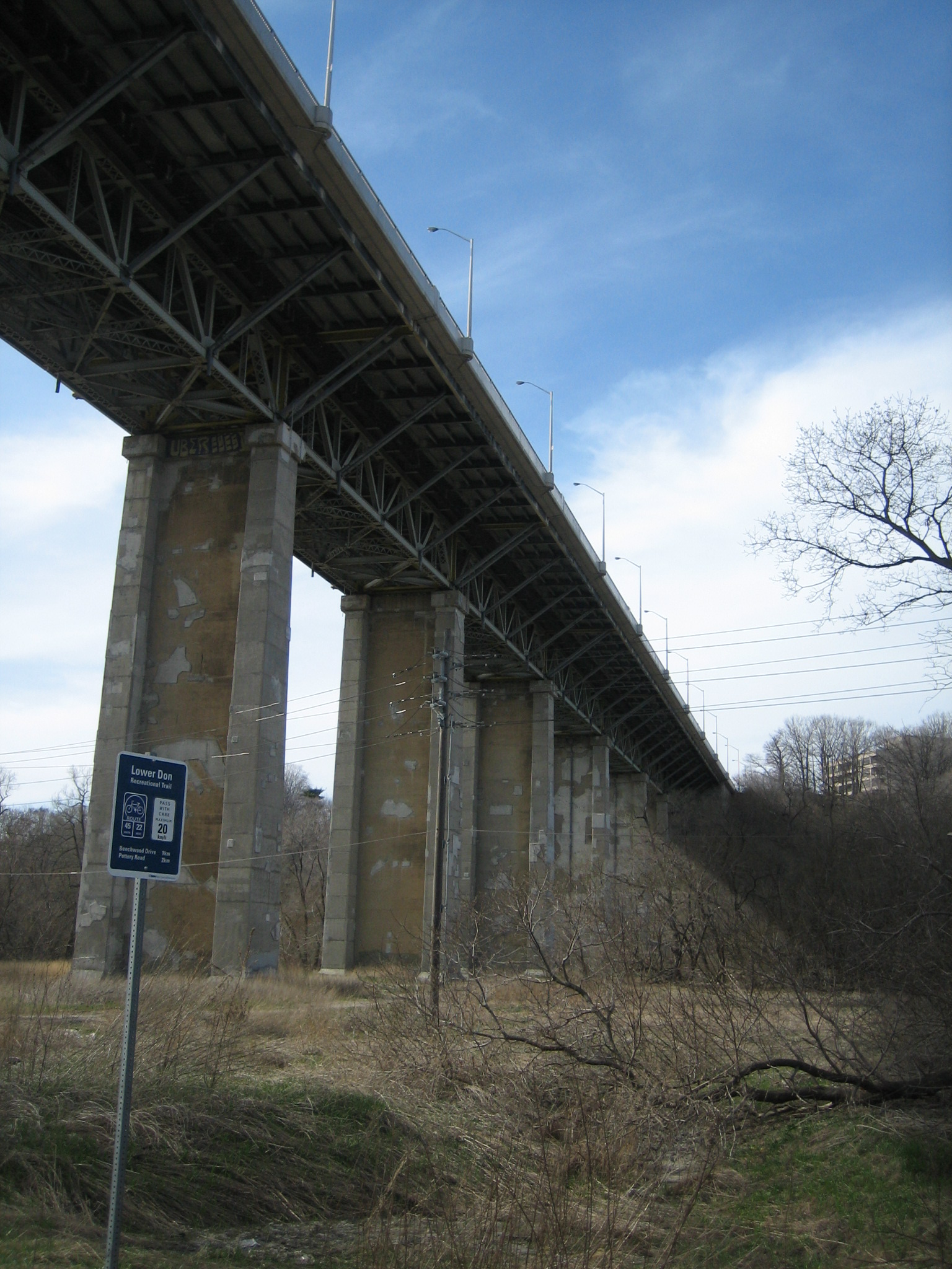 Leaside Bridge